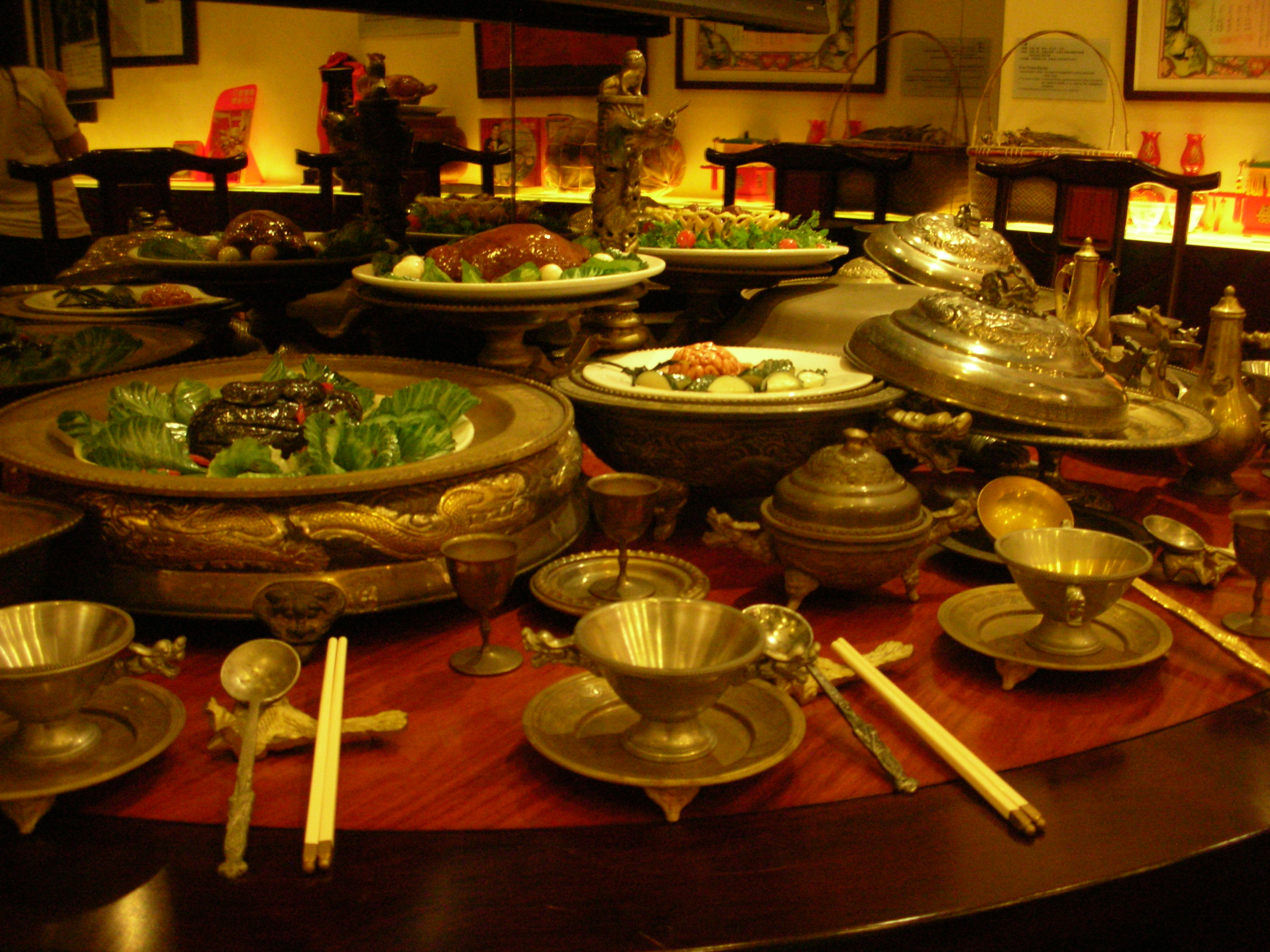 Manchu Han Imperial Feast, simulated in the Tao Heung Museum of Food Culture, Fo Tan, Hong Kong